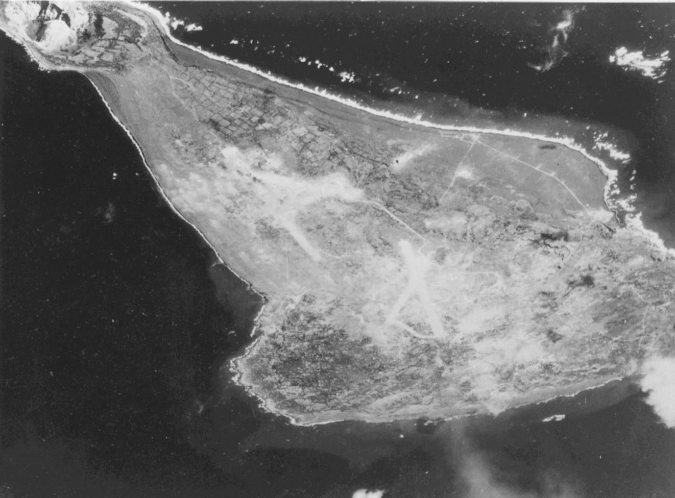 From the John C. Scharfen Collection (COLL/272), Marine Corps Archives & Special Collections OFFICIAL USMC PHOTOGRAPH